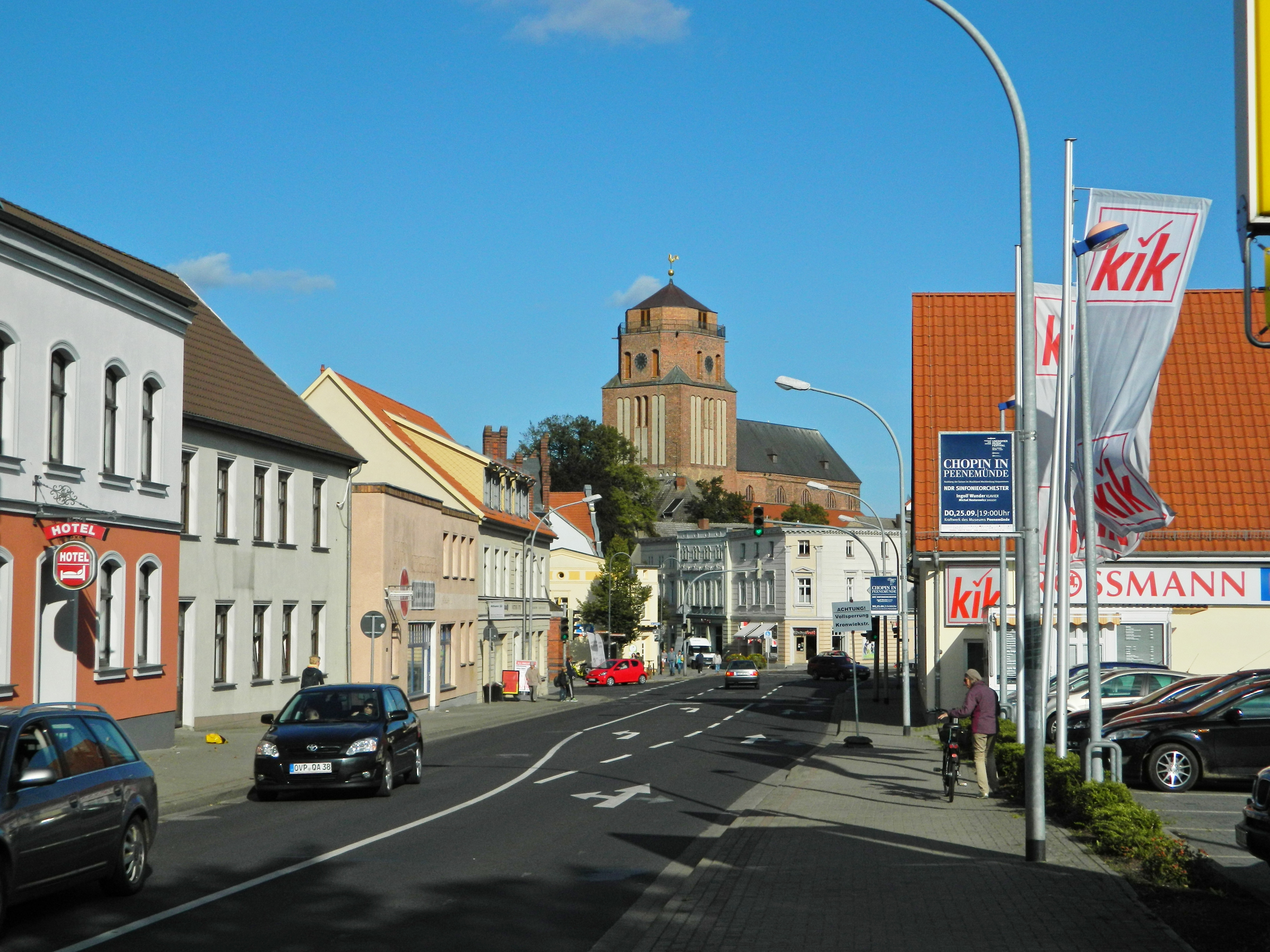 17438 Wolgast, Germany